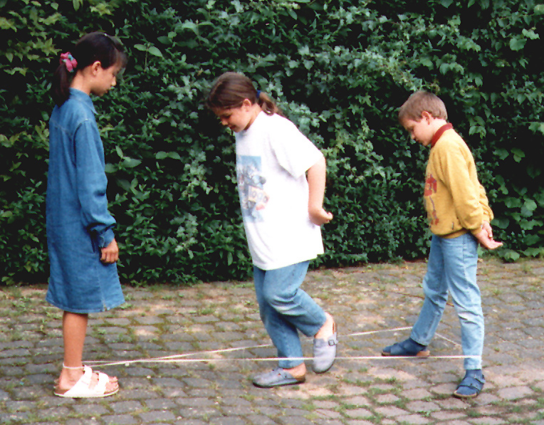 Chinese jump rope played by children in Krefeld, image 1.